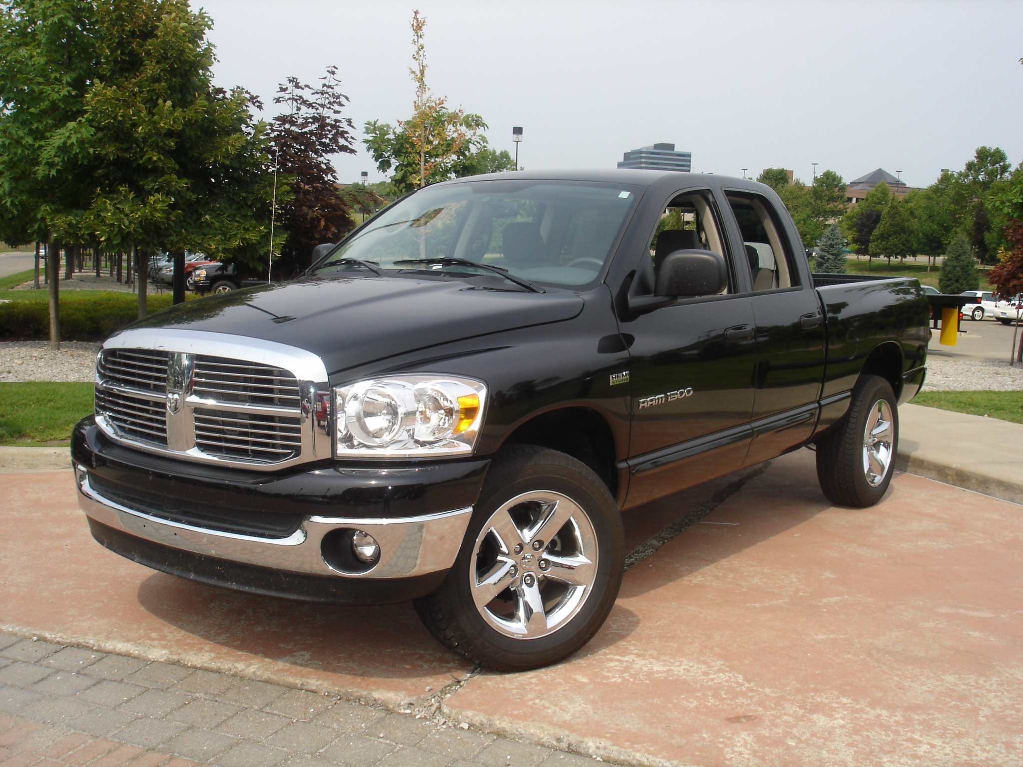 2007 Dodge Ram 1500 at the Walter P. Chrysler Museum